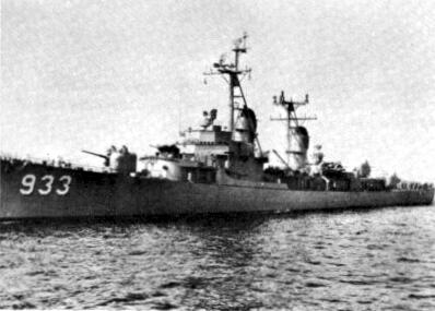 A U.S. Navy destroyer USS Barry (DD-933) circa in 1956.